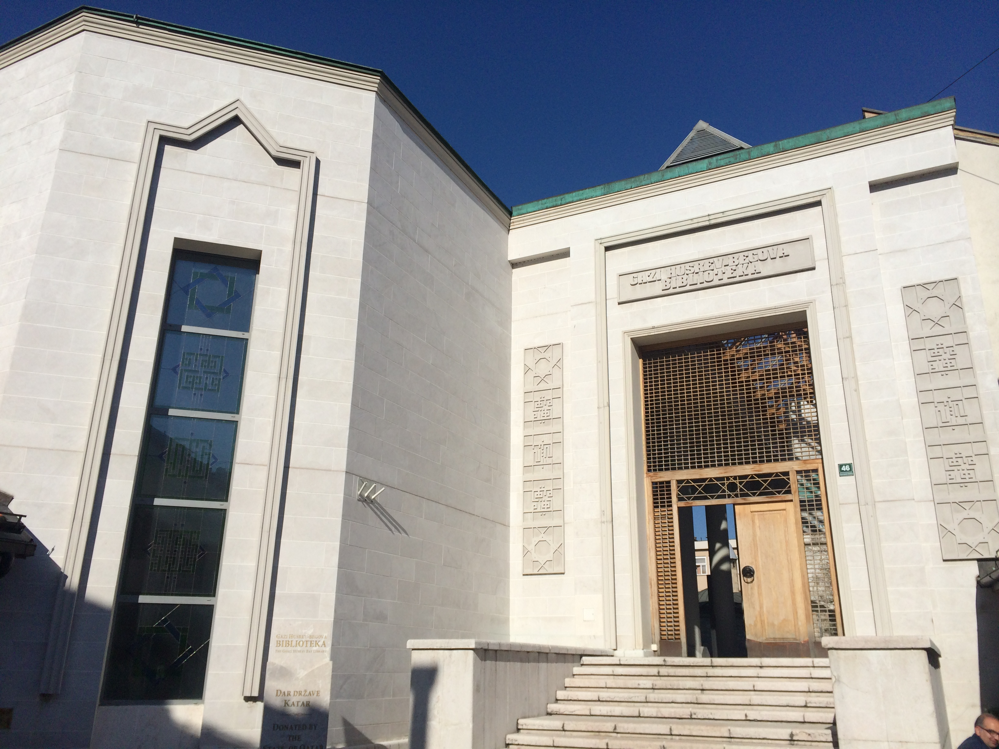 Library donated by Qatar in 2012, dedicated to Gazi Husrev Bey, in Old Sarajevo, Bosnia